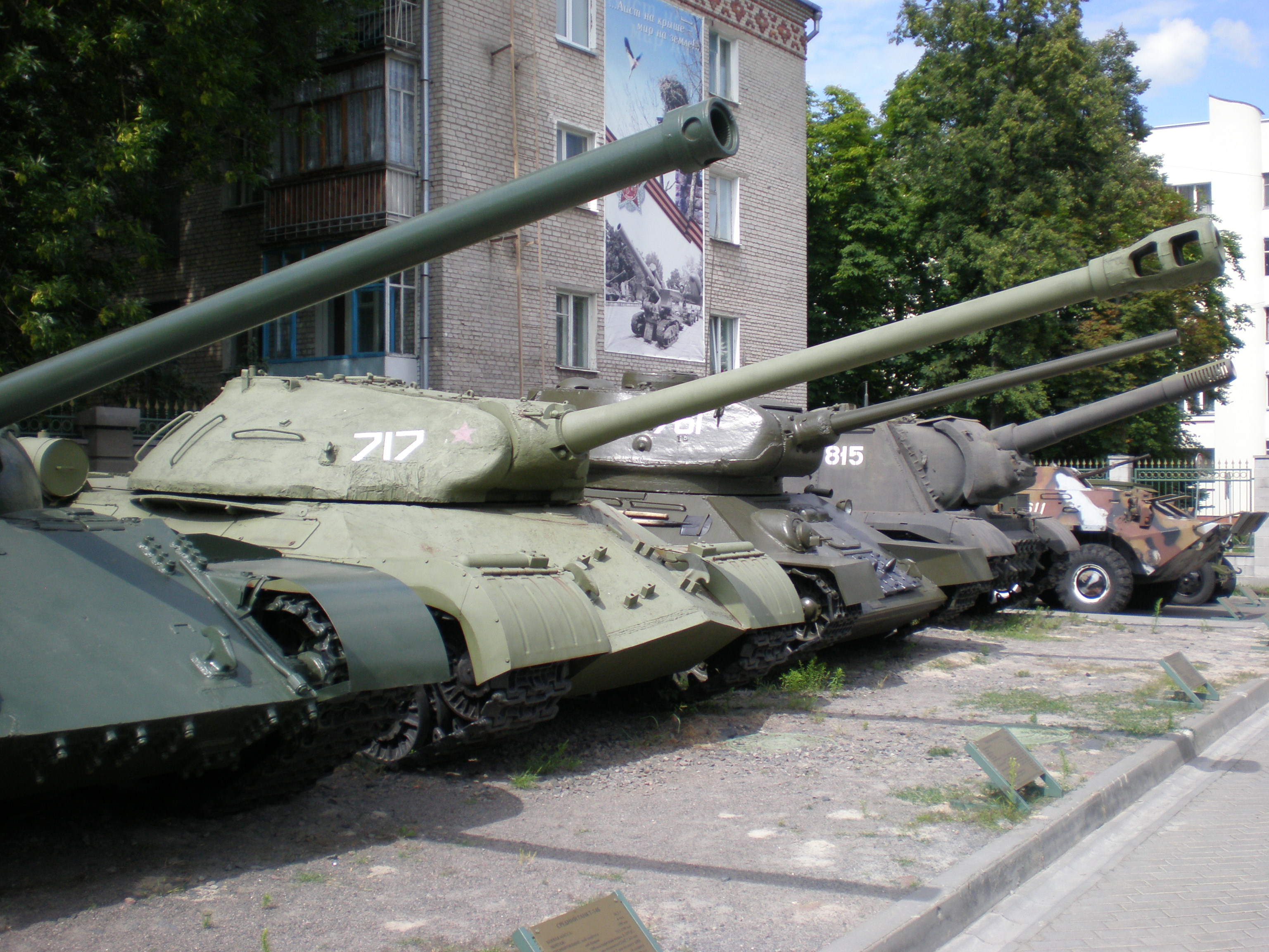 T-54M, IS-3 and T-34-85 at a museum in Belarus.